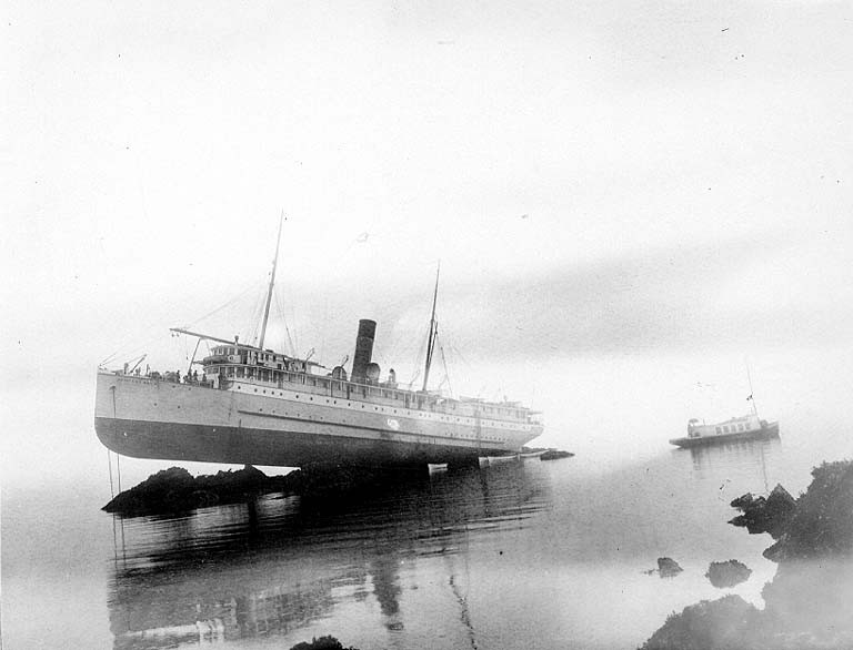 From John Cobb field notebook: C.P.R. SS Princess May on the reef at Sentinel Island, Alaska. Aug. 7, 1910 Subjects (LCTGM): Ship accidents--Alaska--Sentinel Island Subjects (LCSH): Princess May (Steamship); Steamships--Alaska--Sentinel Island; Marine accidents--Alaska--Sentinel Island